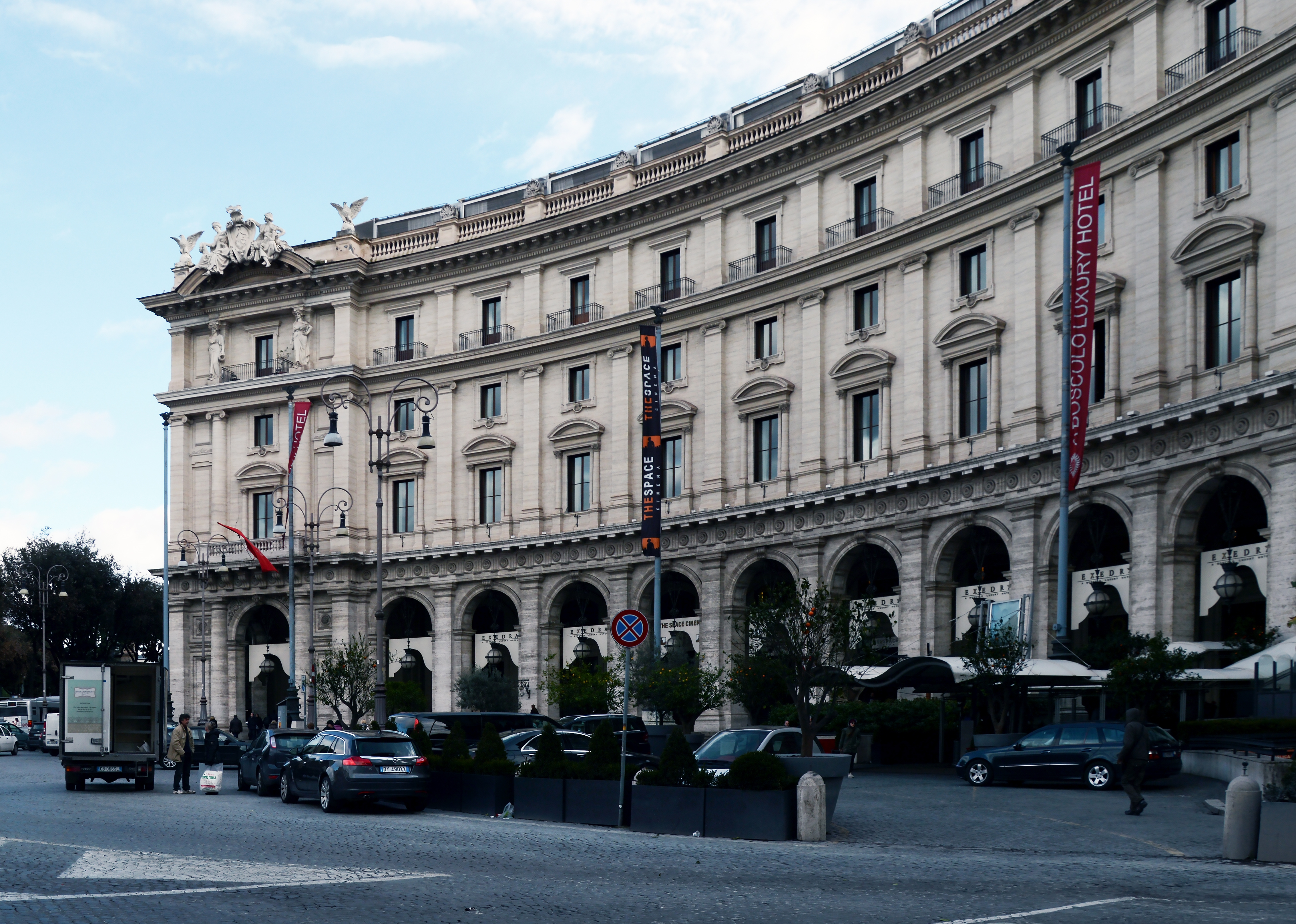 Palace of Republic Square in Rome